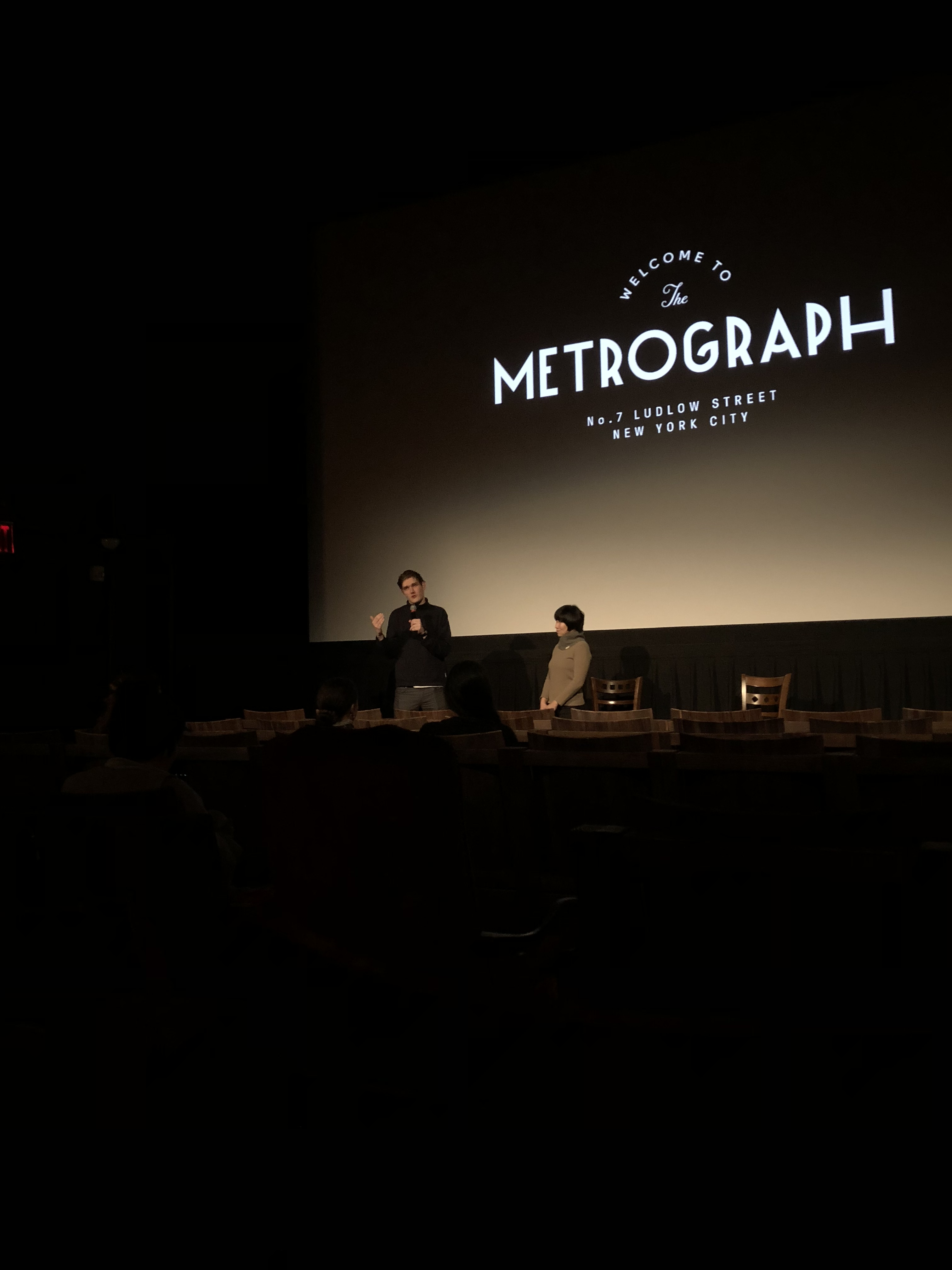 Bo Burnham, speaking in Theatre 1 of Metrograph, taken by me in 2018